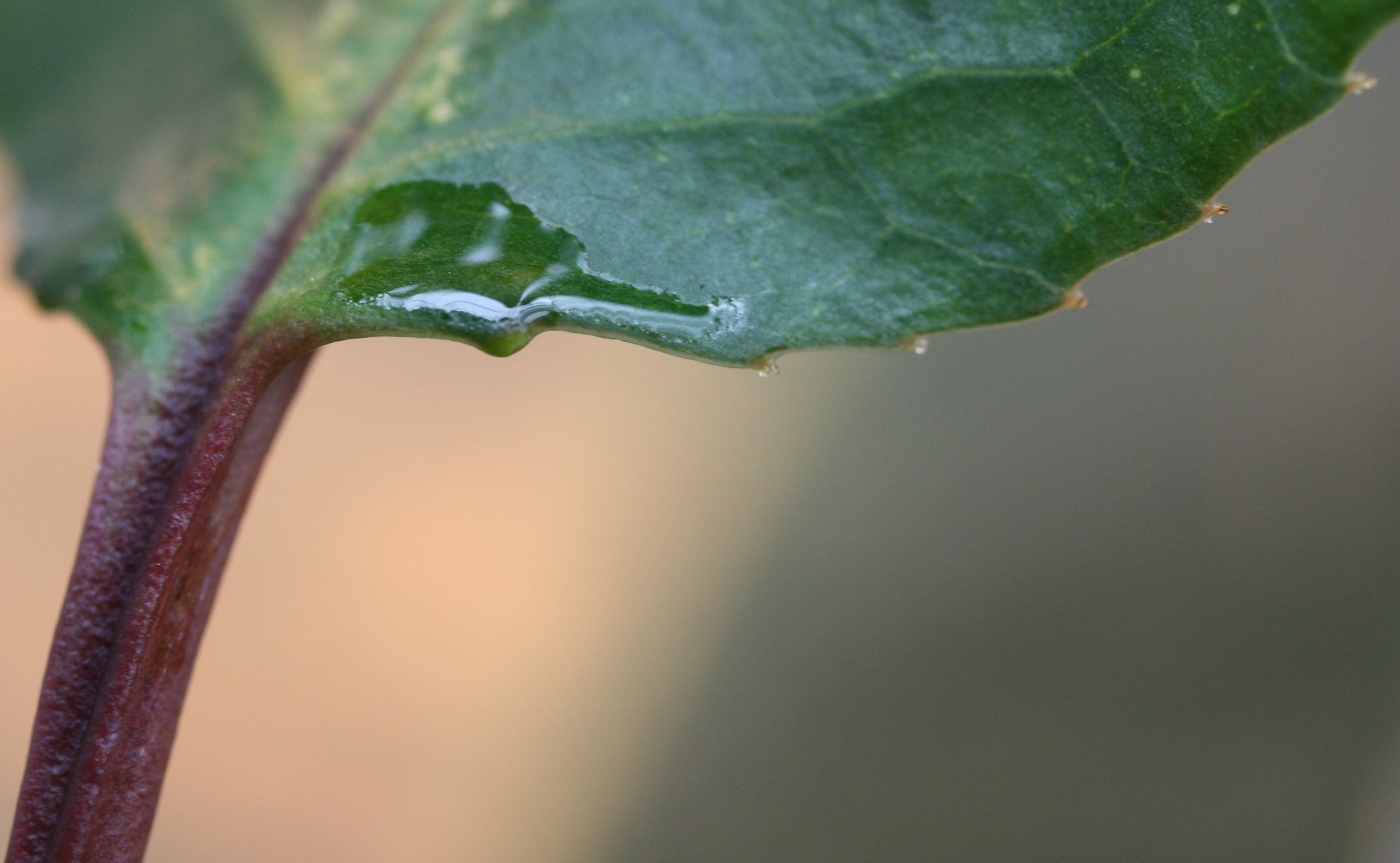 Extrafloral nectaries on the leaf margin of Prunus africana Dr Russell Sharp Lancaster Environment Centre Lancaster University Lancaster Great Britain